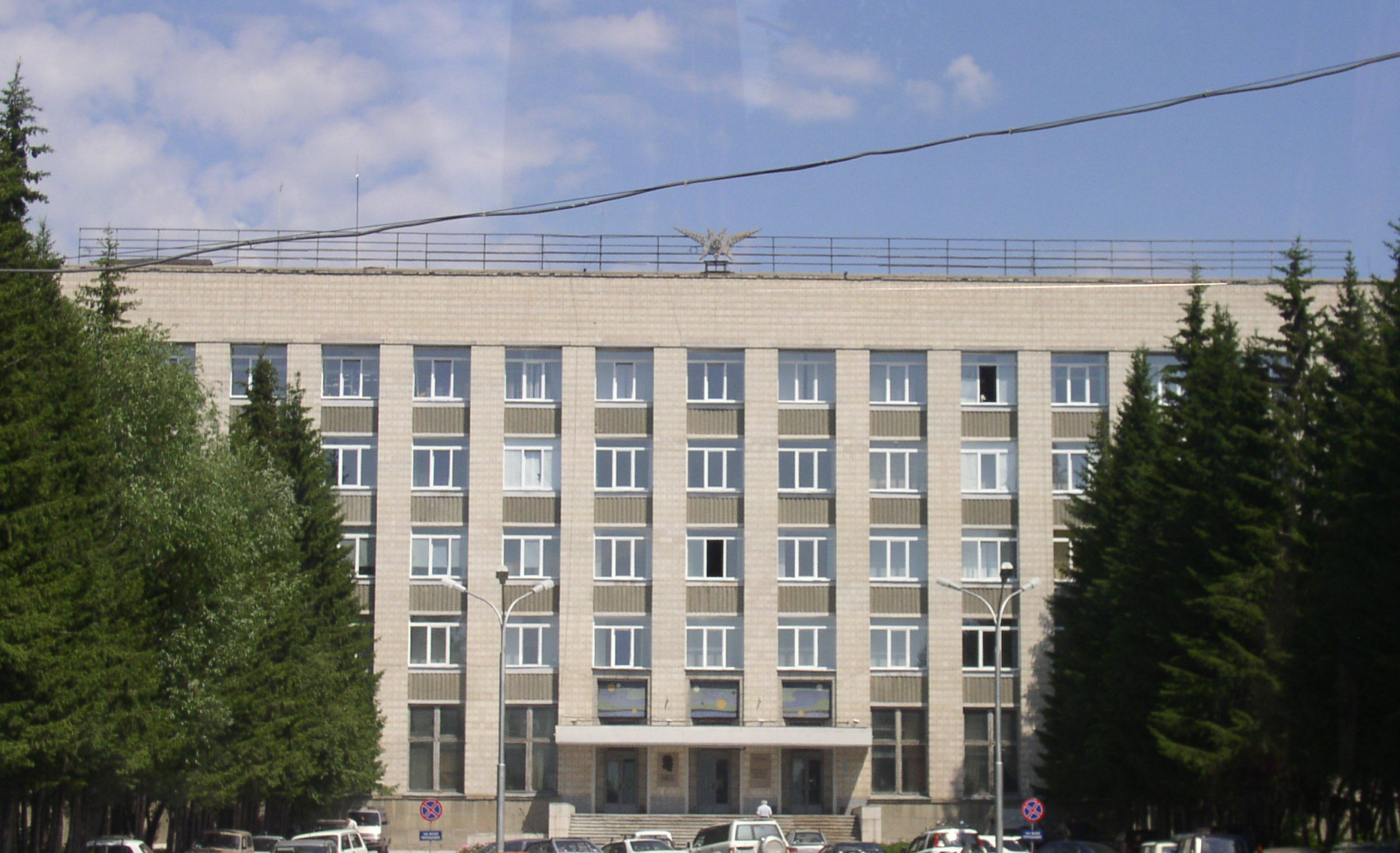 Budker Institute of Nuclear Physics in Akademgorodok